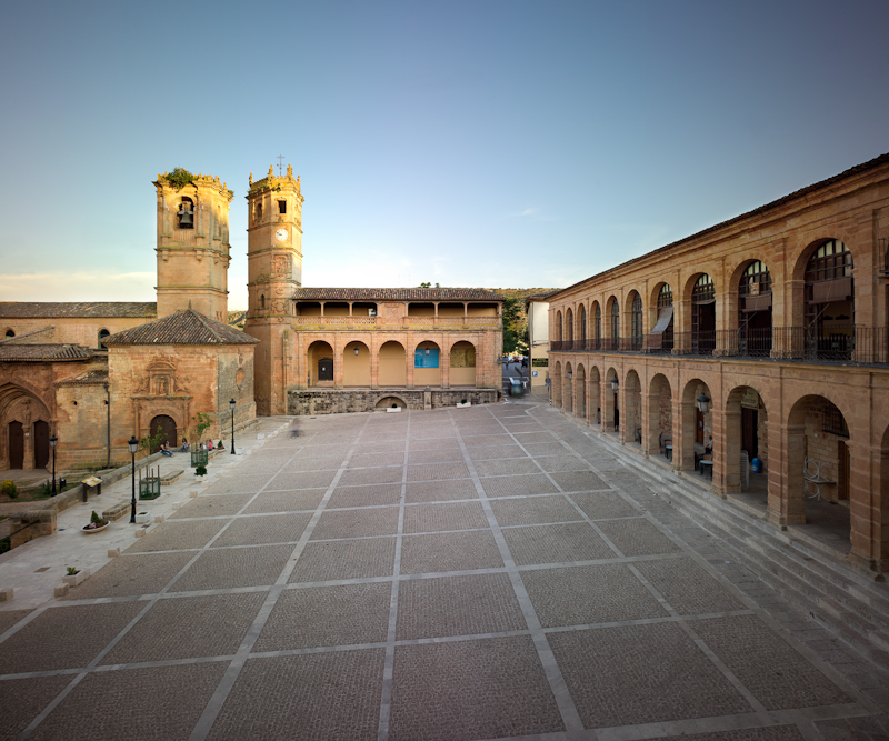 Square of City, from Alcaraz (Albacete) Spain